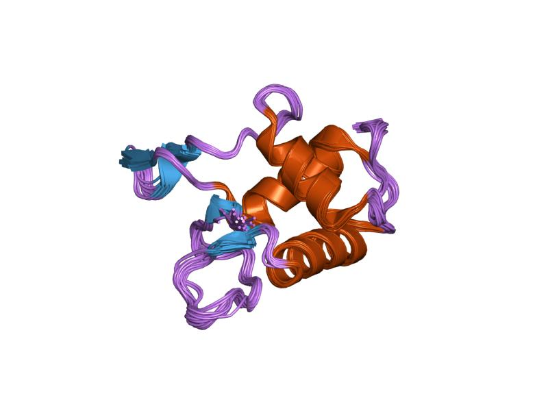 Cartoon representation of the molecular structure of protein registered with 1fsh code.